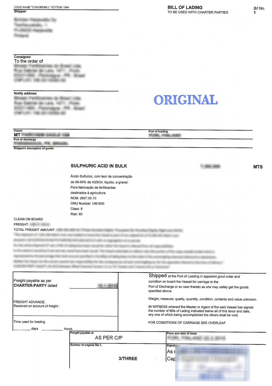 Charter-party Bill of lading connaissement B/L